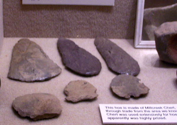 Millcreek chert hoes from the Nodena Site, a Mississippian culture Nodena Phase site in Arkansas.